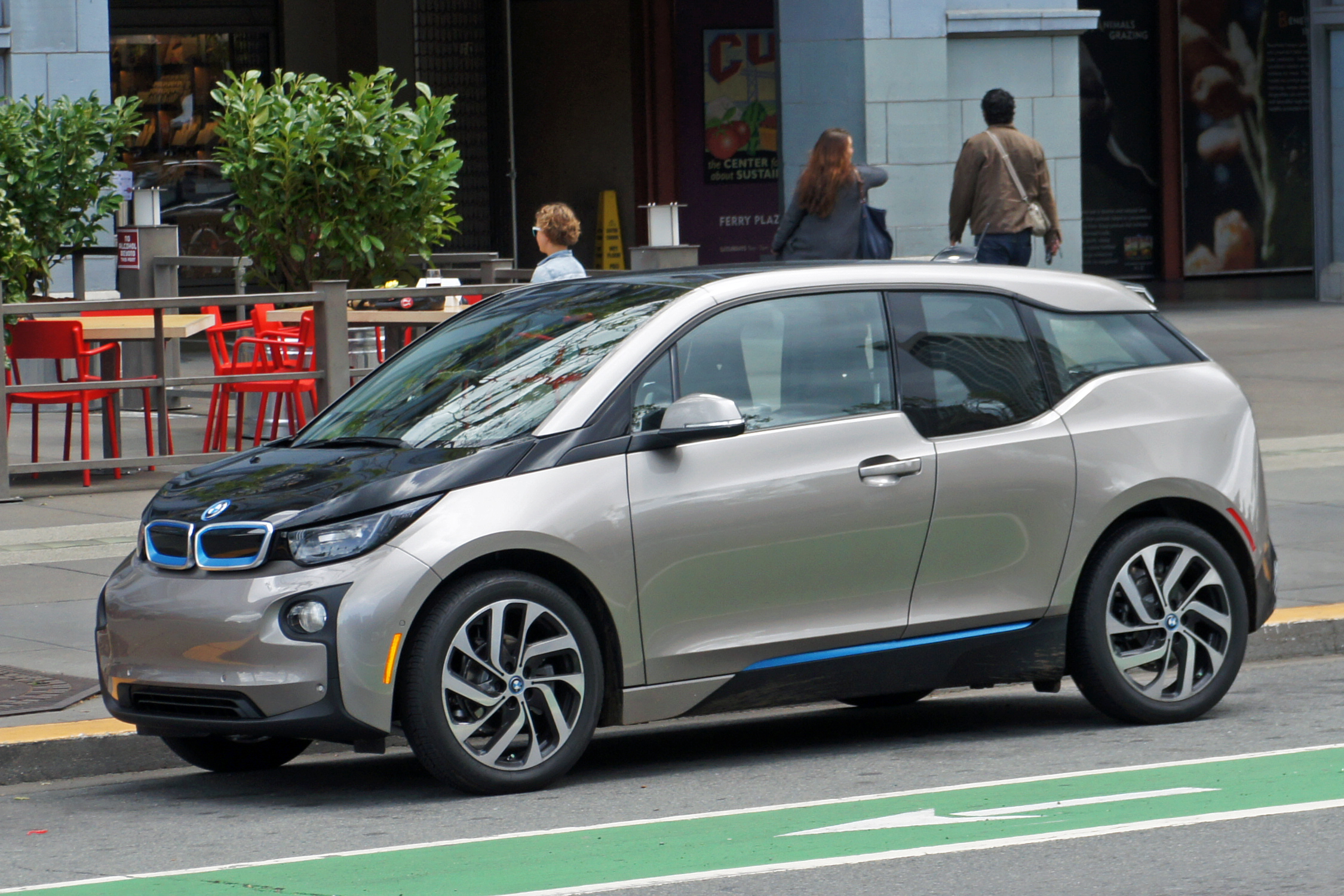 BMW i3 electric car, Embarcadero, San Francisco, California